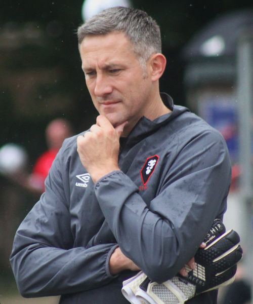 Craig Dotson coaching Salford City in July 2017.